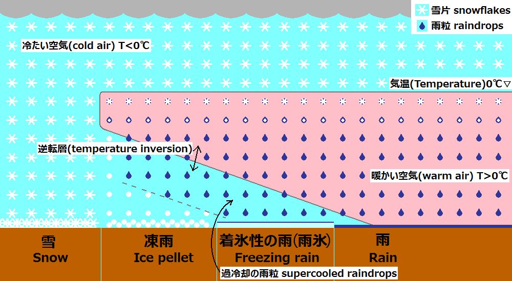 This figure shows the cause of freezing rain(temperature inversion).